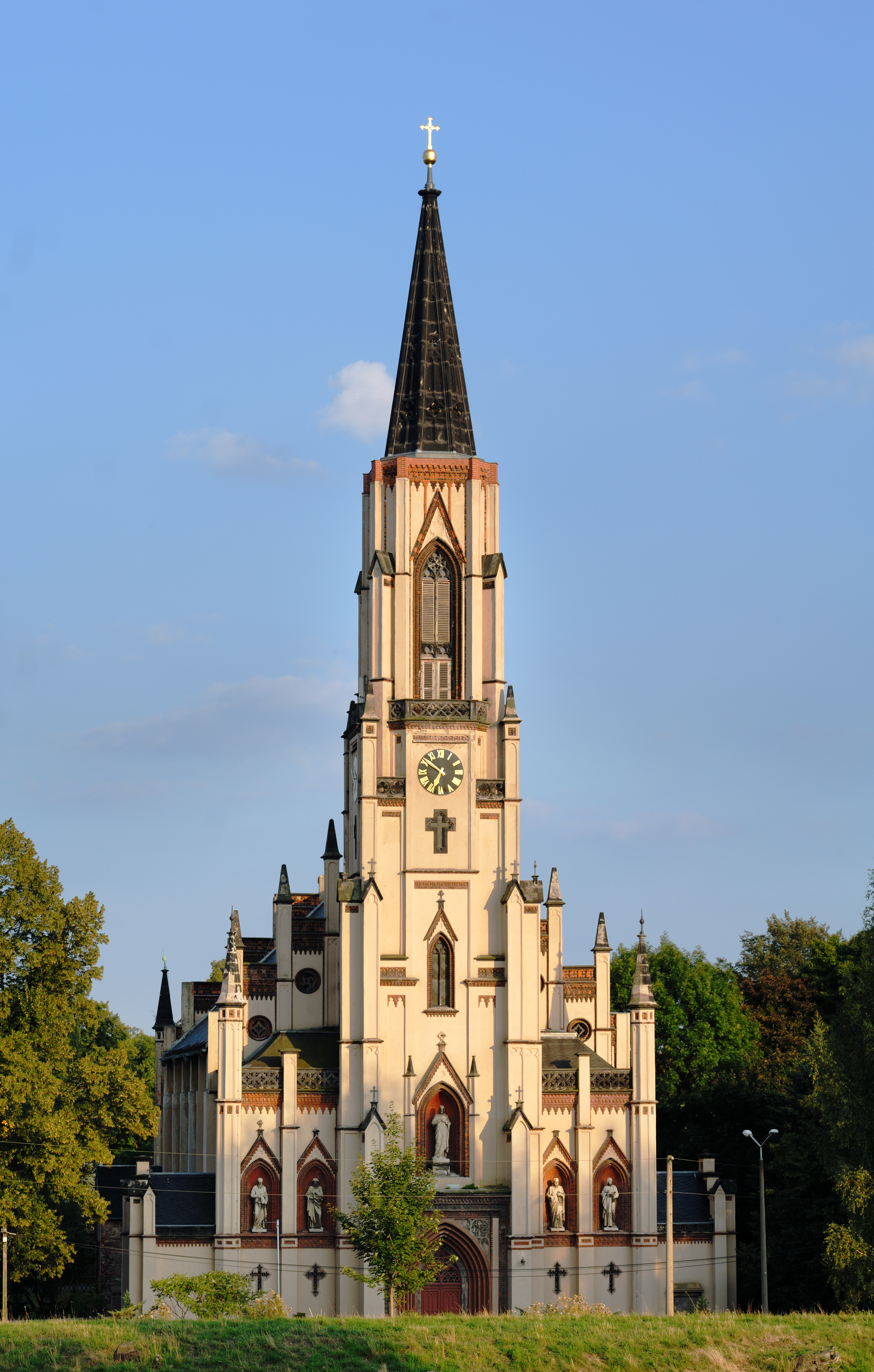 This image shows the Matthäuskirche ("Matthew church") in Zwickau, district Bockwa, in Saxony, Germany. It is a three segment panoramic image.